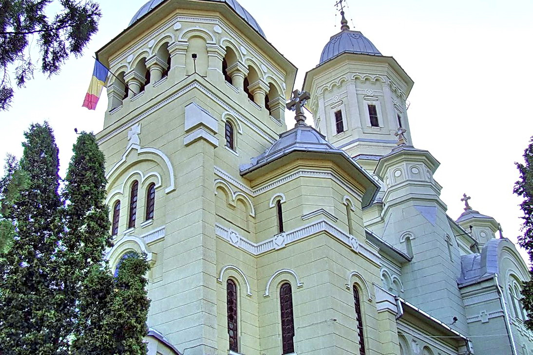 Image from Turda, Romania